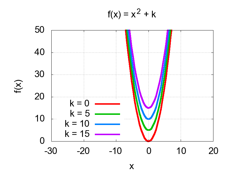 Graph of quadratics with vertical shifts